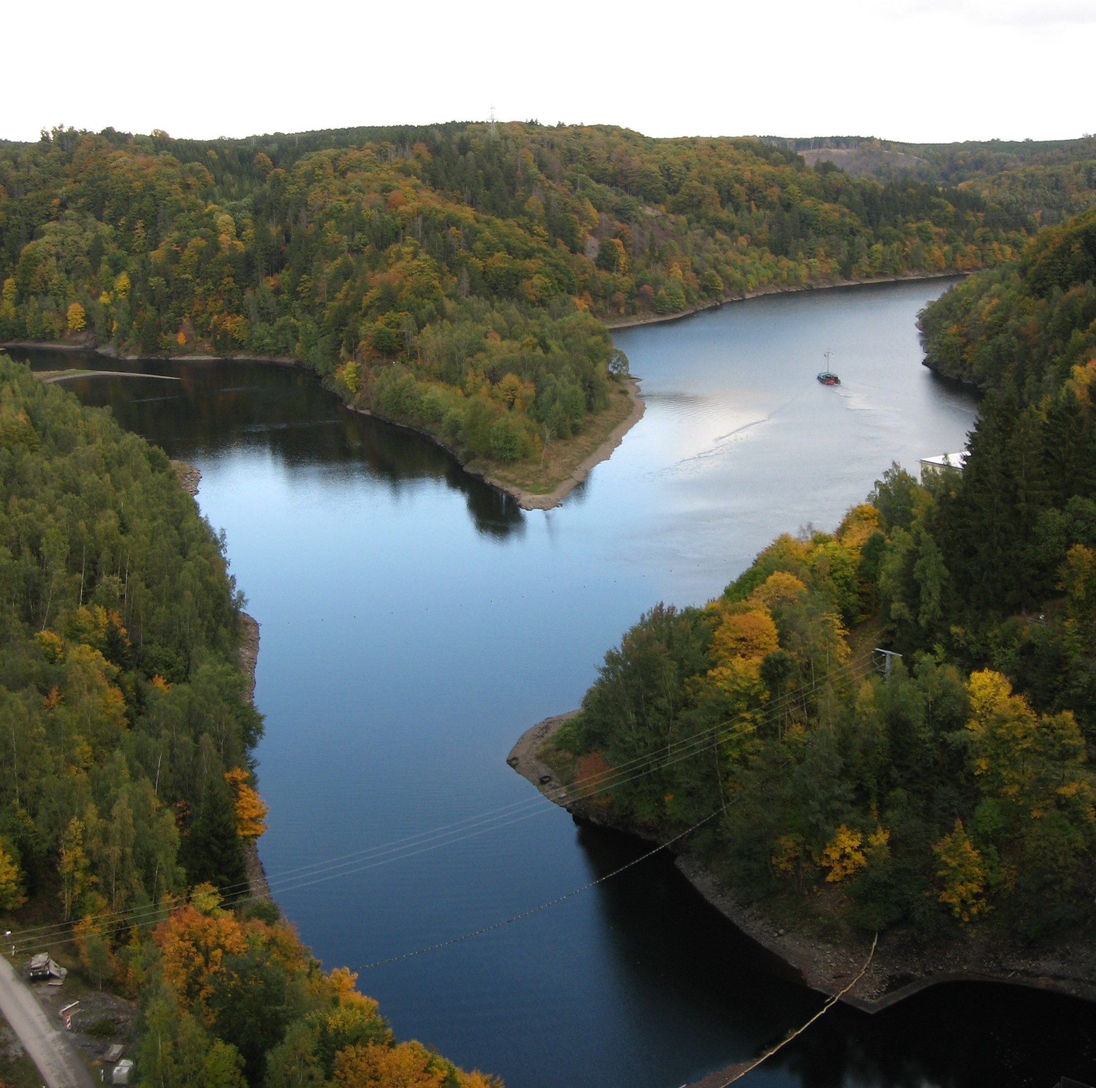 wiew from the Rappbode Dam